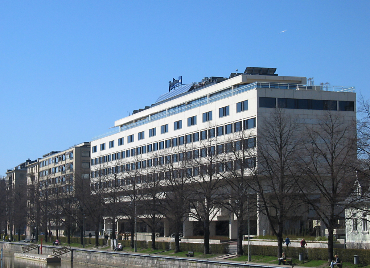 Turku Radisson SAS Marina Palace Hotel